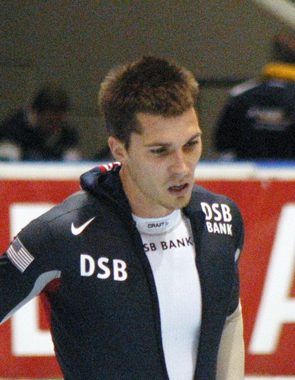 Kip Carpenter (USA) at a world cup speedskating in Heerenveen, the Netherlands (8-dec-2007)